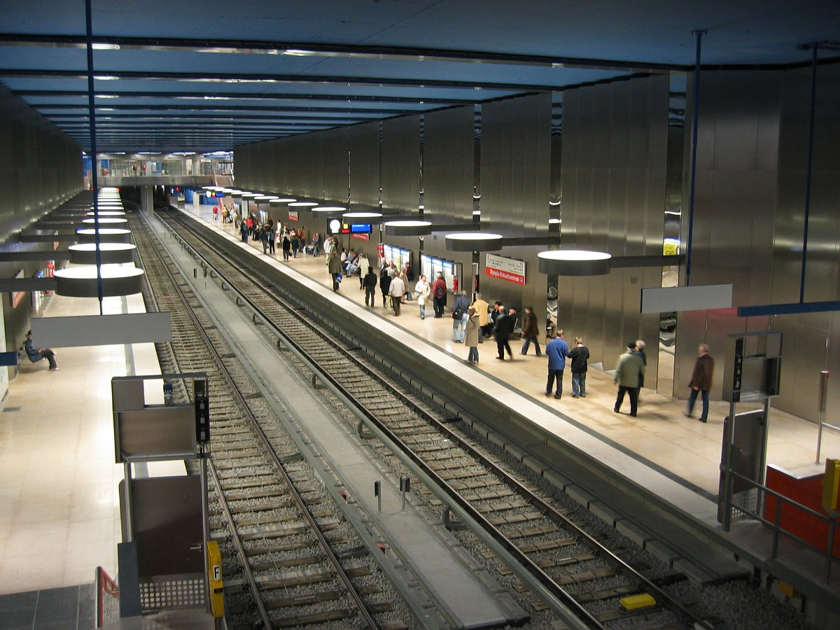 Munich subway station Olympia-Einkaufszentrum (U1)